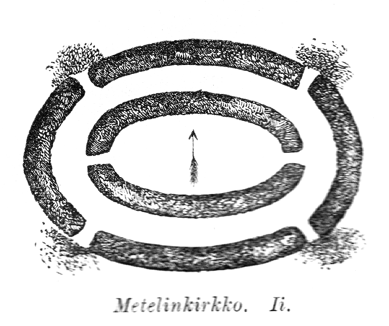 Drawing of a giant's church (neolithic stone structure) known as 'Metelinkirkko', located in the municipality of Oulu, Finland.